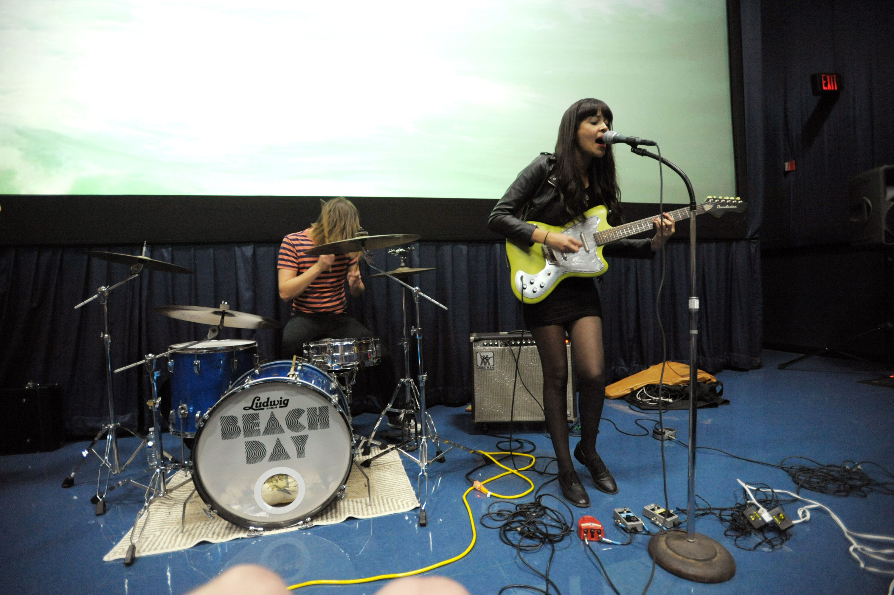 The band Beach Day performing at the REEL Music Video Art Competition presented by MTV & TR3S Photo by: World Red Eye